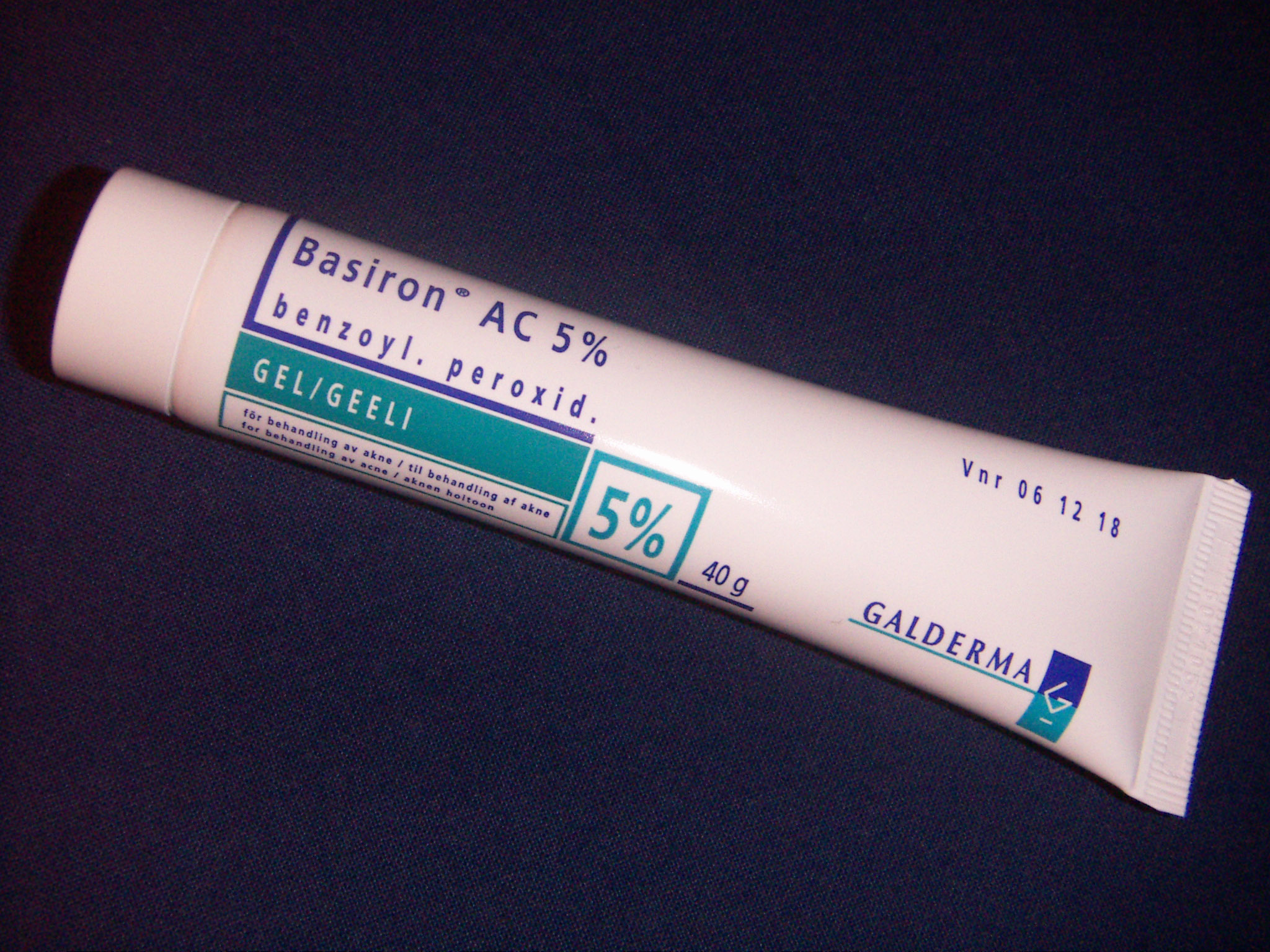 A tube of Basiron (also sold as Benzac) from Galderma Laboratories, used for the treatment of acne. Its active ingredient is benzoyl peroxide.